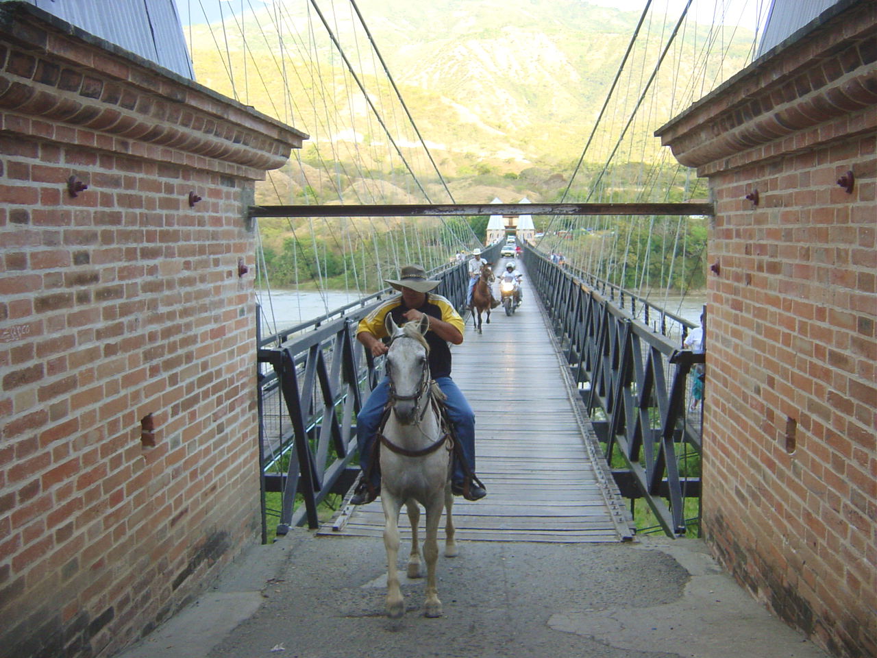 Image taken by uploader on October 2006